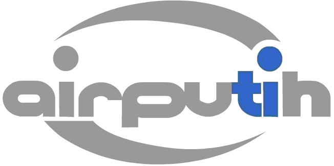 AirPutih Logo